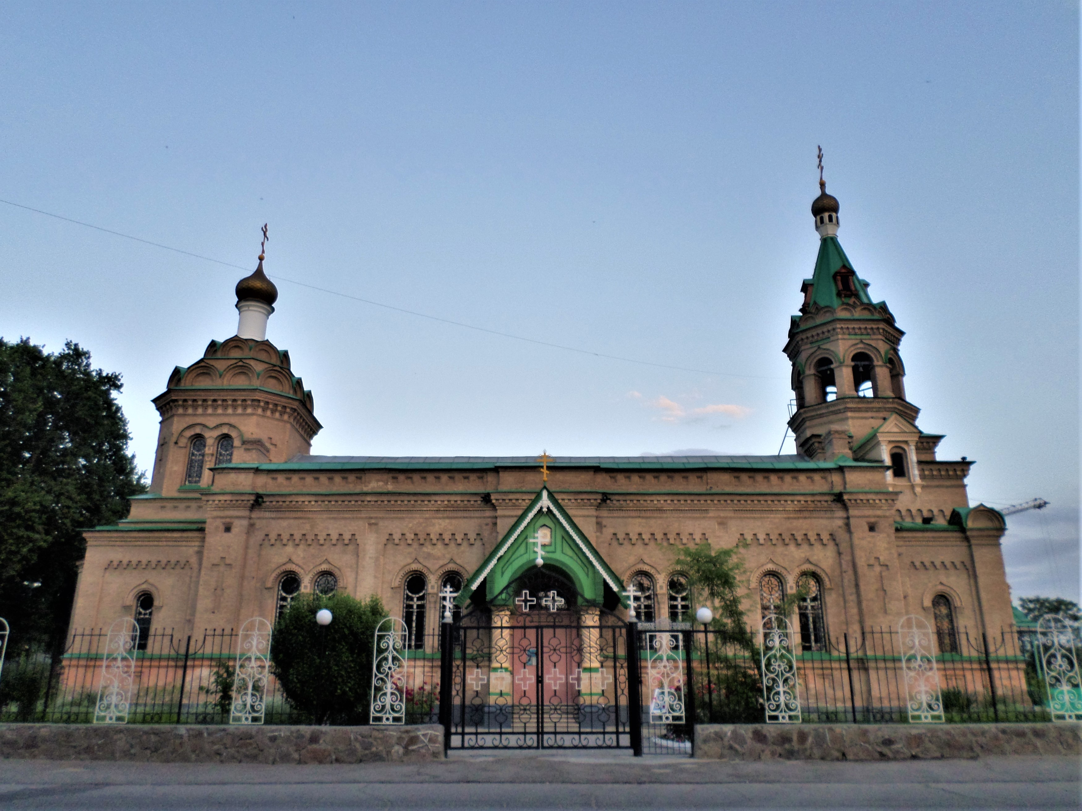 Cathedral of St. Alexis of Moscow to Samarkand